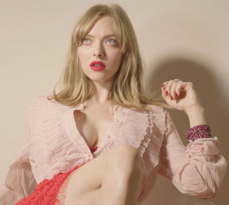 Amanda Seyfried in a photoshoot for Vogue